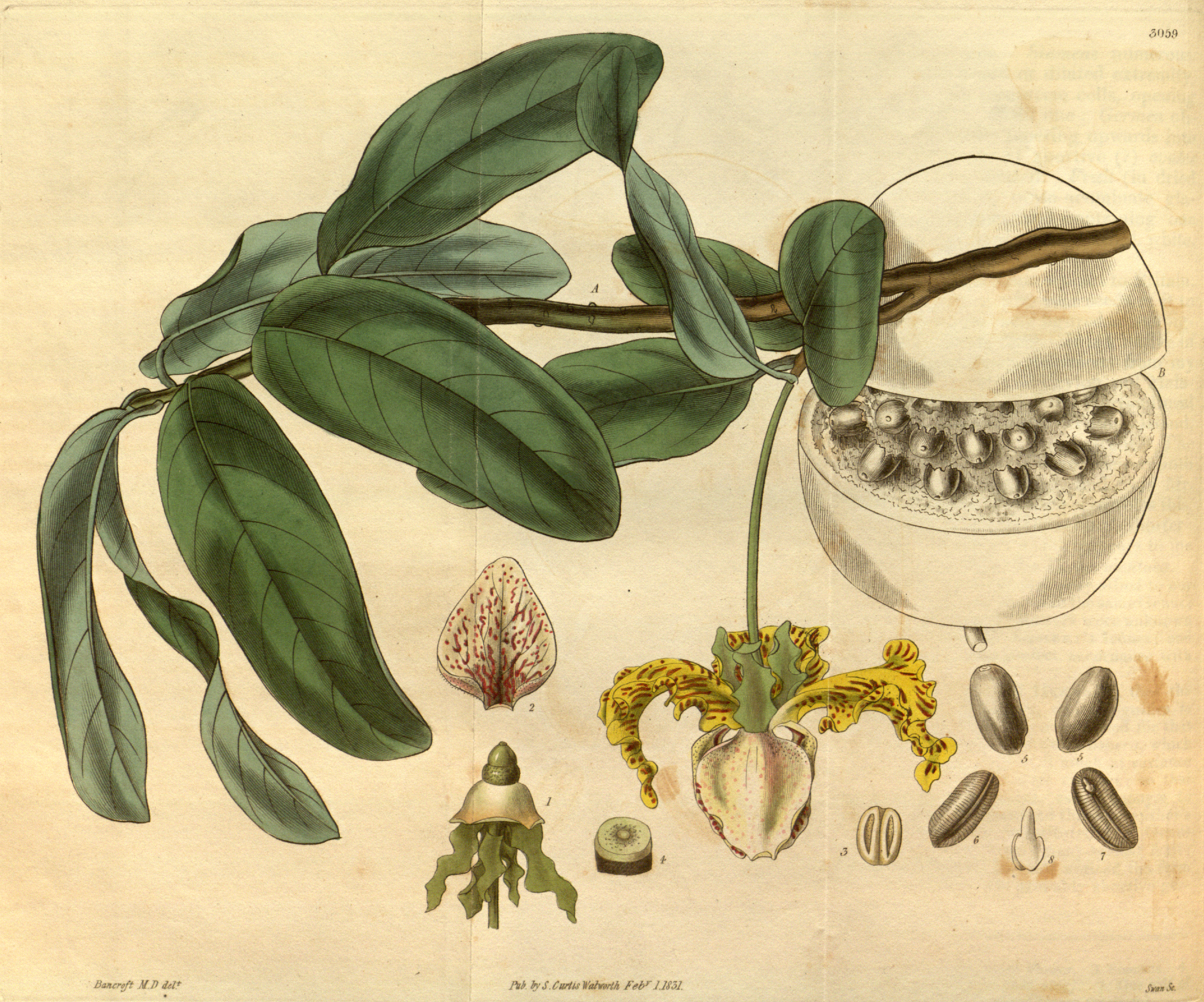 Monodora myristica. This is a plate from Curtis's Botanical Magazine, Volume 58.